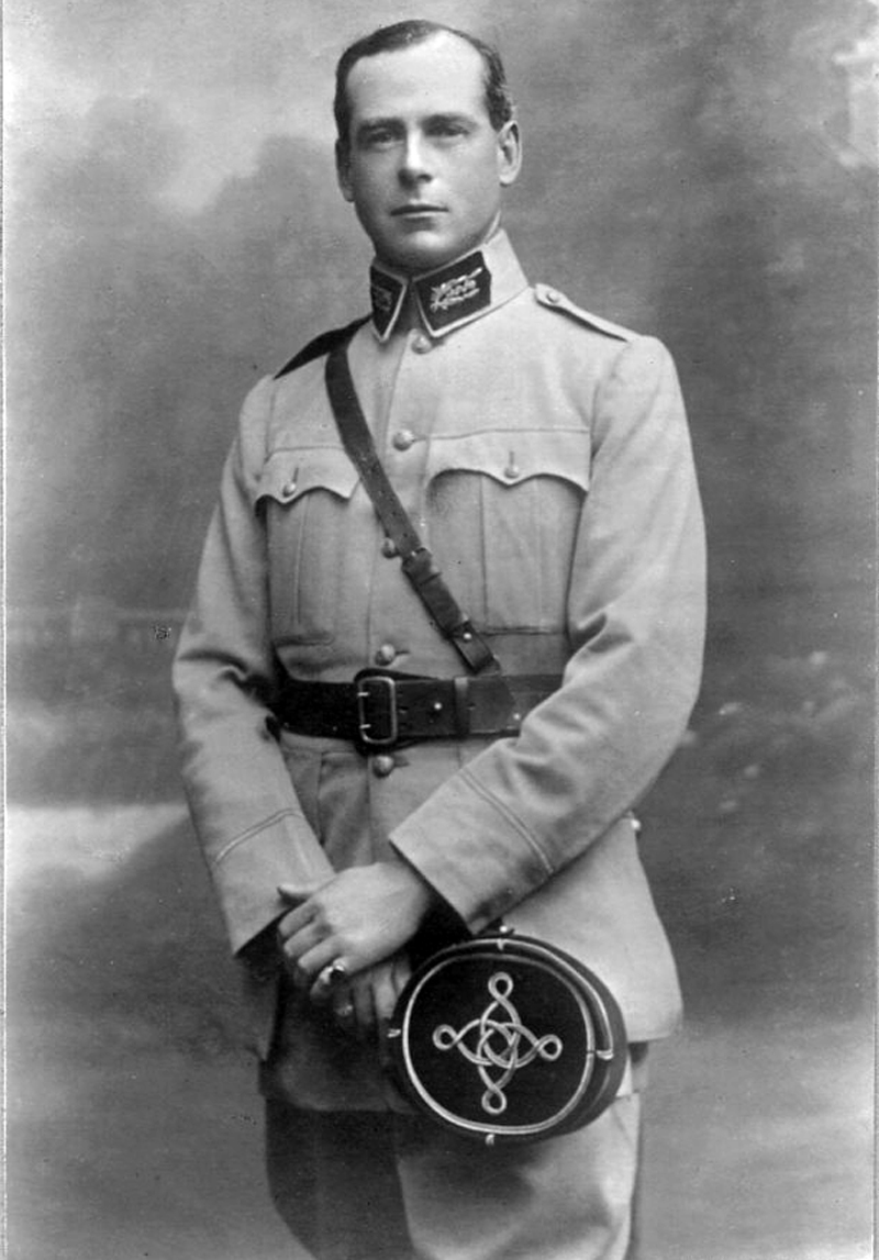 Sir Norman Kater in his French Military uniform, 1916. He was the owner of Peppers Manor House, Sutton Forest